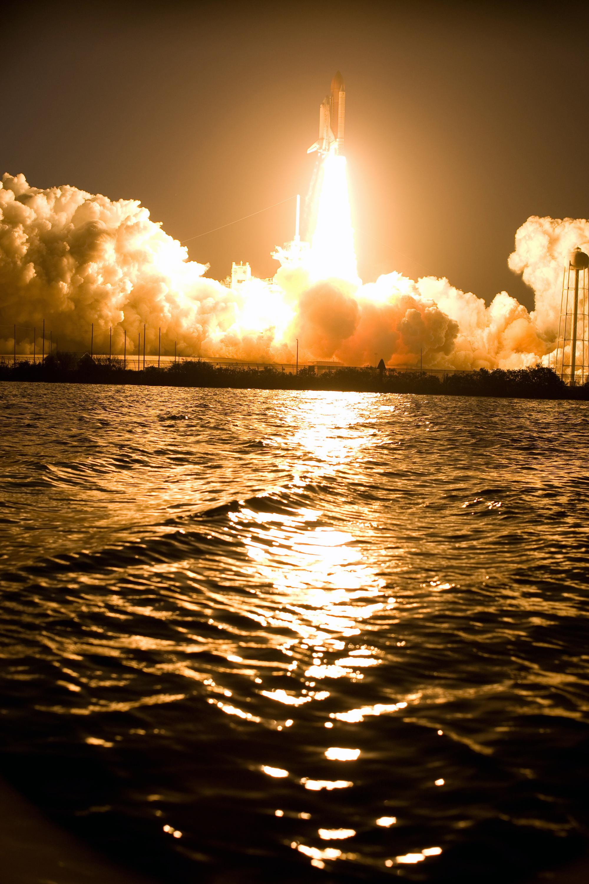 The Discovery space shuttle lifting off on the STS-119 mission from Launch Pad 39A at NASA's Kennedy Space Center. The STS-119 mission is the 28th to the International Space Station and the 125th space shuttle flight. Discovery will deliver the final pair of power-generating solar array wings and the S6 truss segment.